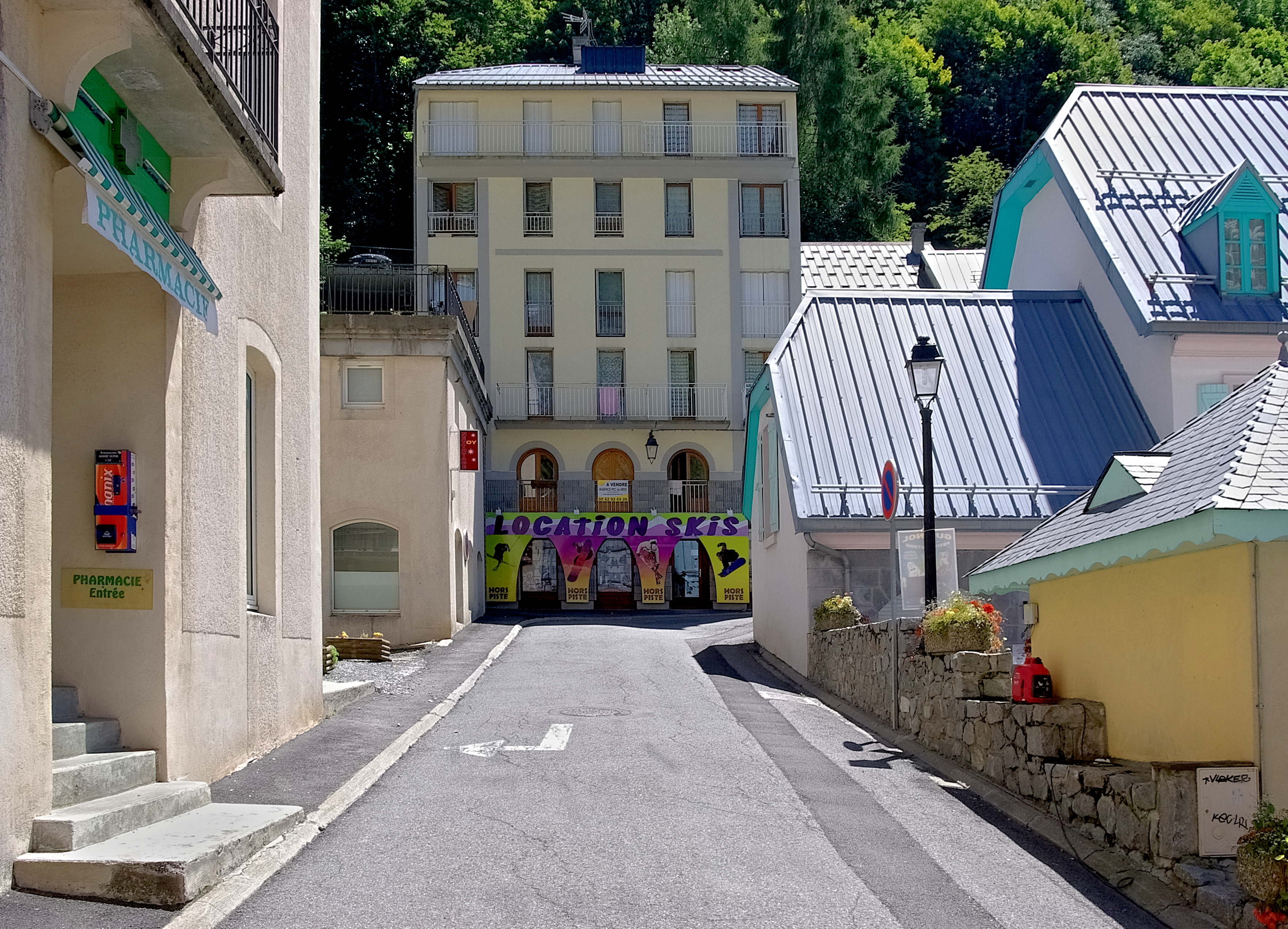 Street and roofs with snow guards. Barèges, Hautes-Pyrénées, France.